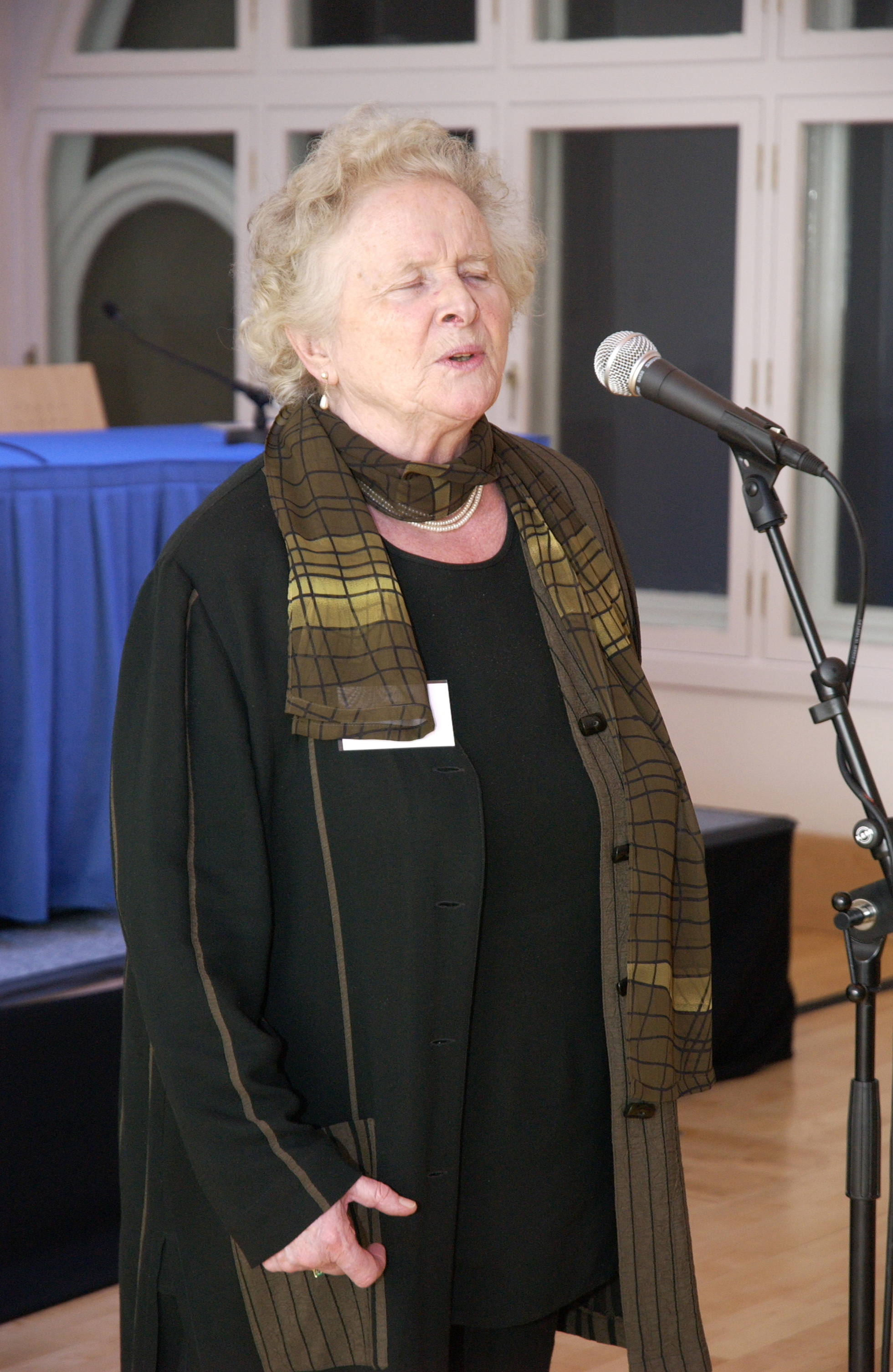 Flora Macneil at Iul Ciuil - Gaelic Music Conference 22 & 23rd March 2006 Proiseact nan Ealan